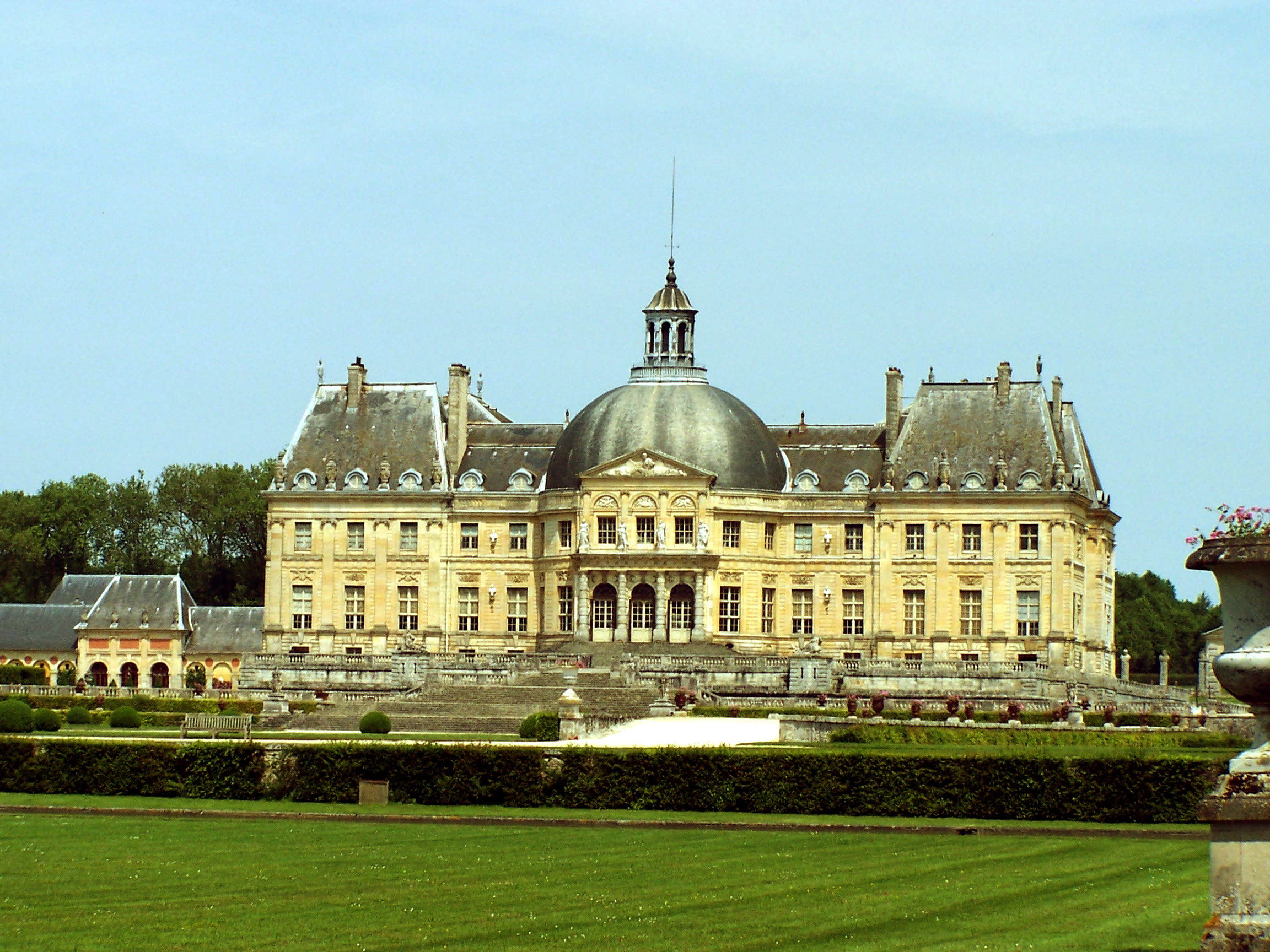 Castle of Vaux-le-Vicomte, France